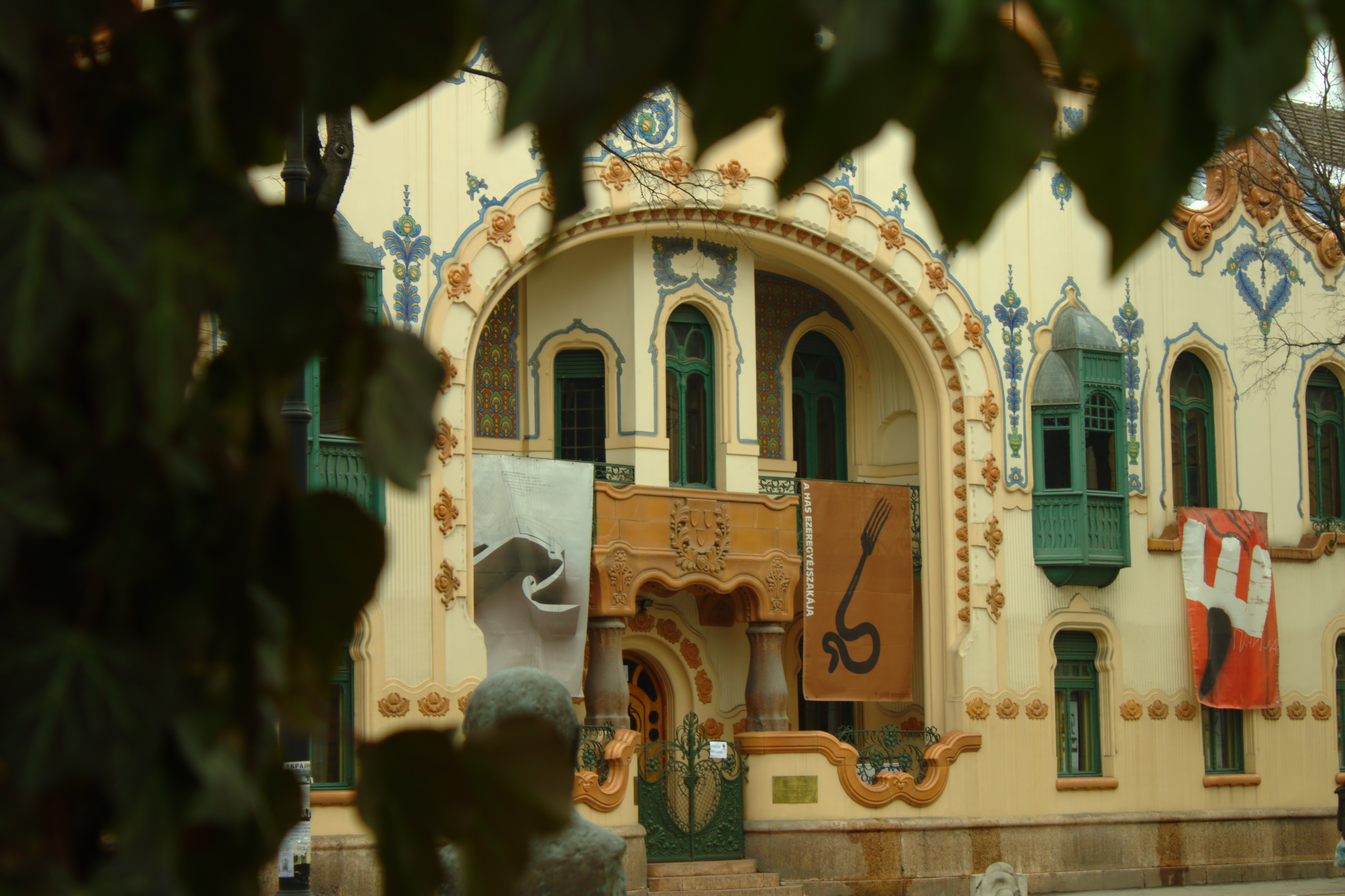 Rajchle's palace in Subotica, Vojvodina, Serbia